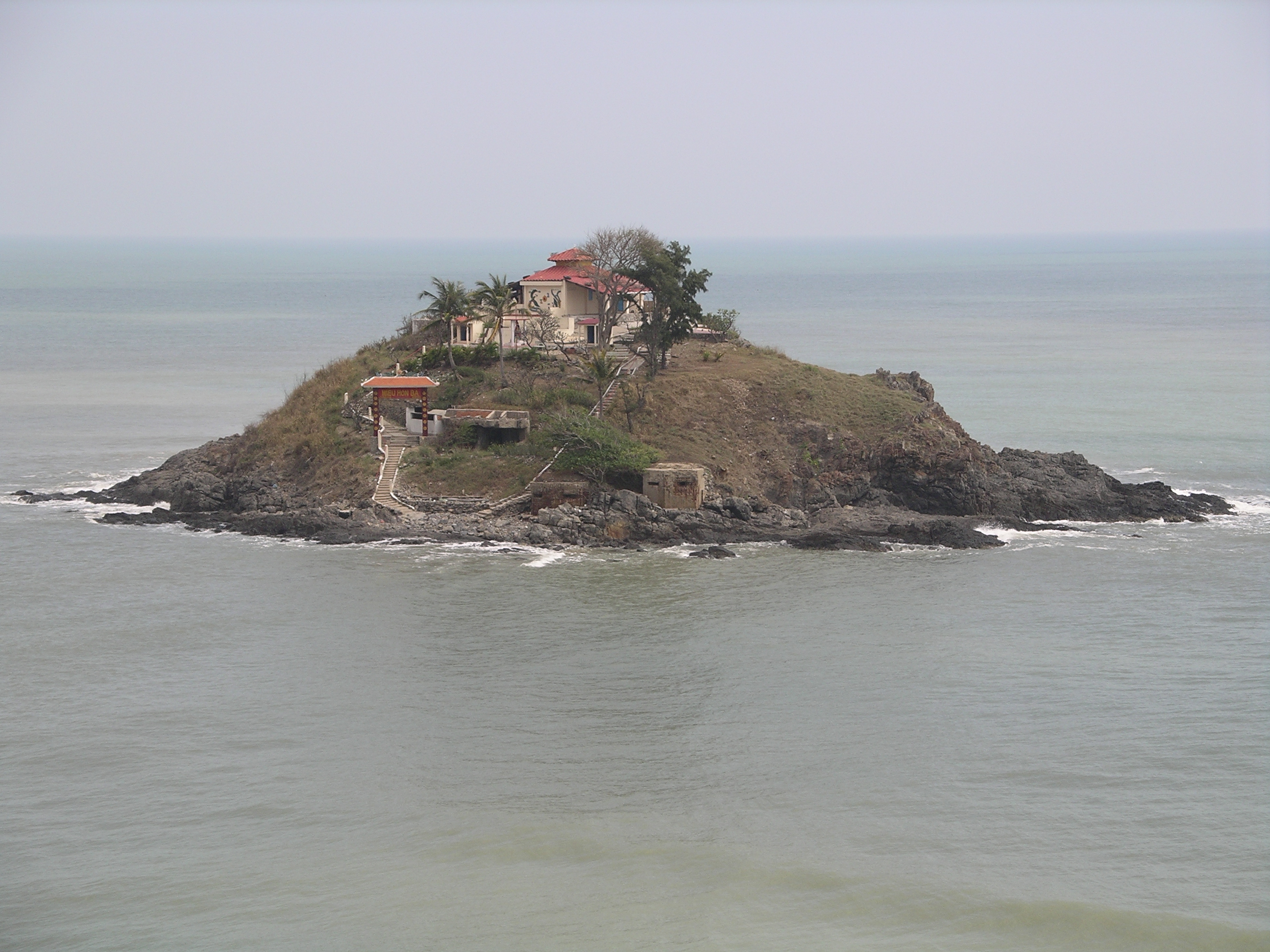 An islet, offshore Vung Tau.